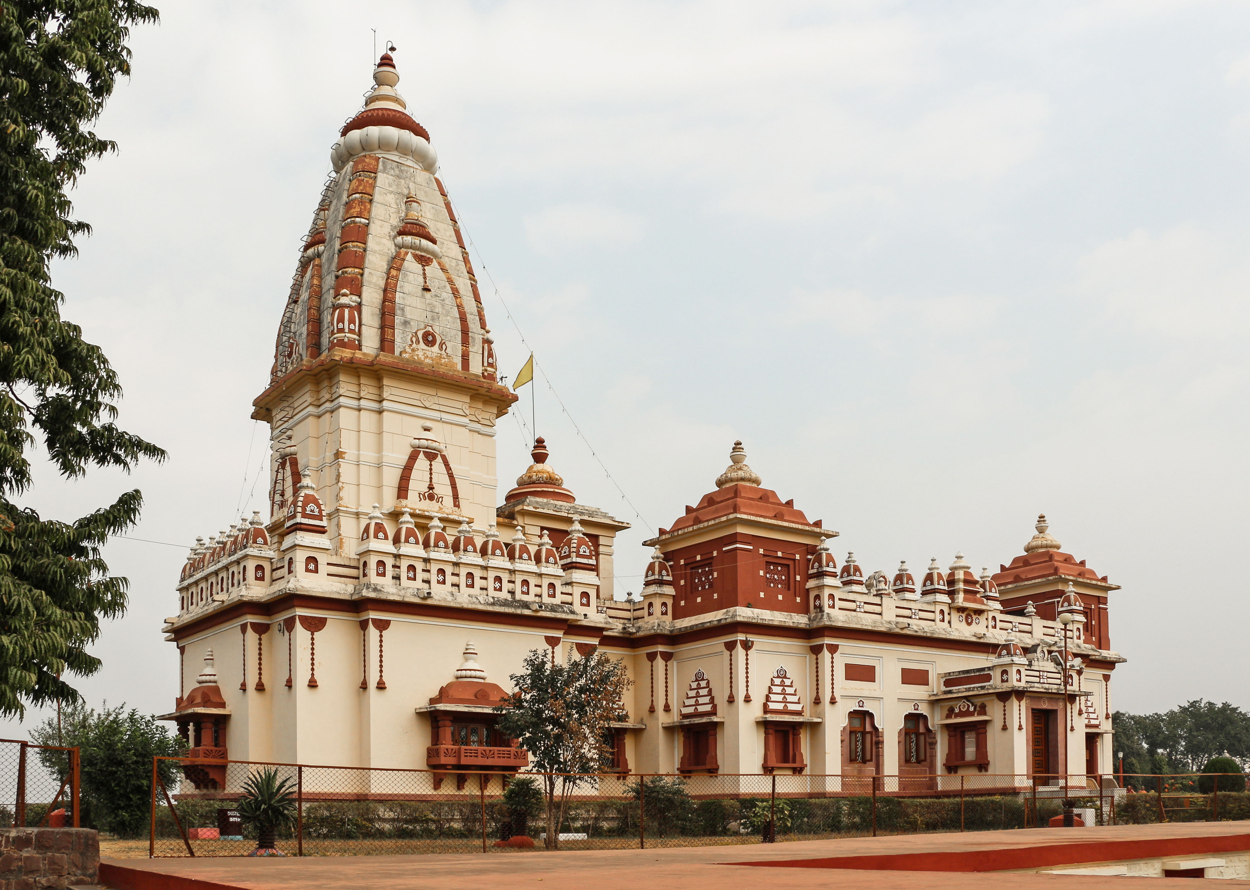 Lakshmi Narayan Temple or Birla Mandir, Bhopal, India